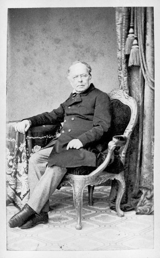 The photograph of German musician Moritz Hauptmann (1792 — 1868)